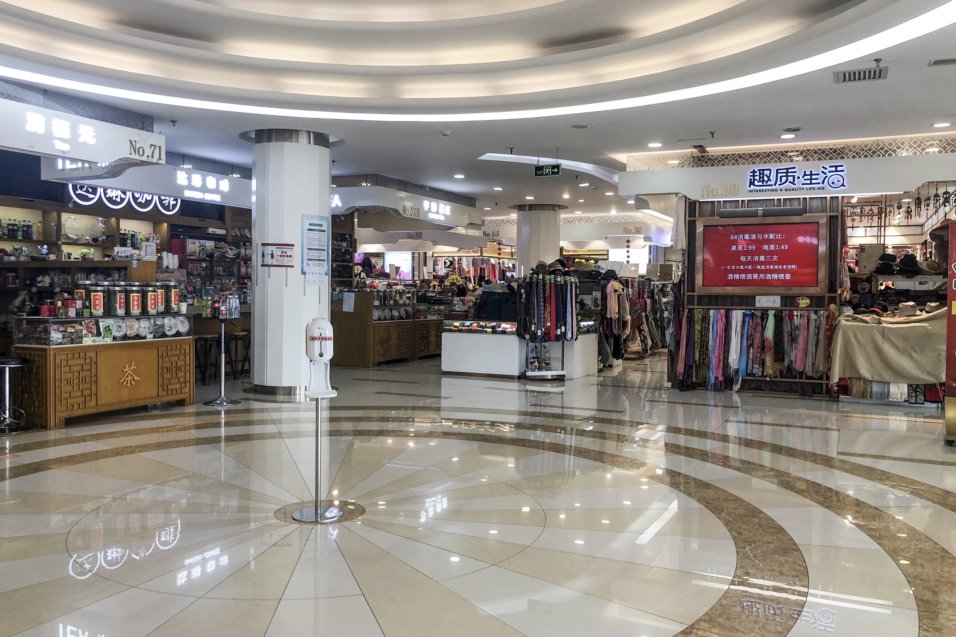 Not just pearls...